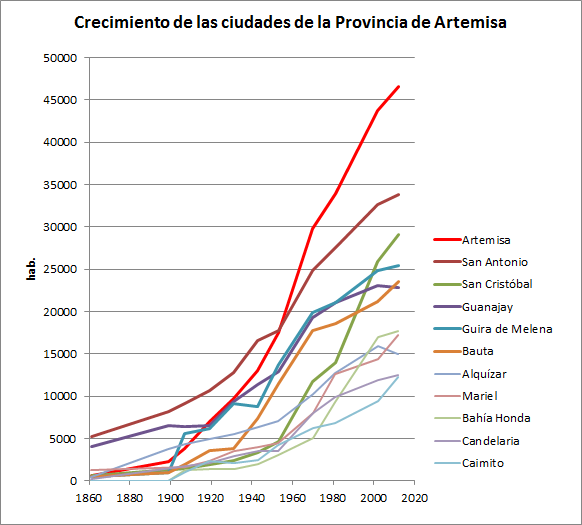 population of the cities of Artemisa province in Cuba